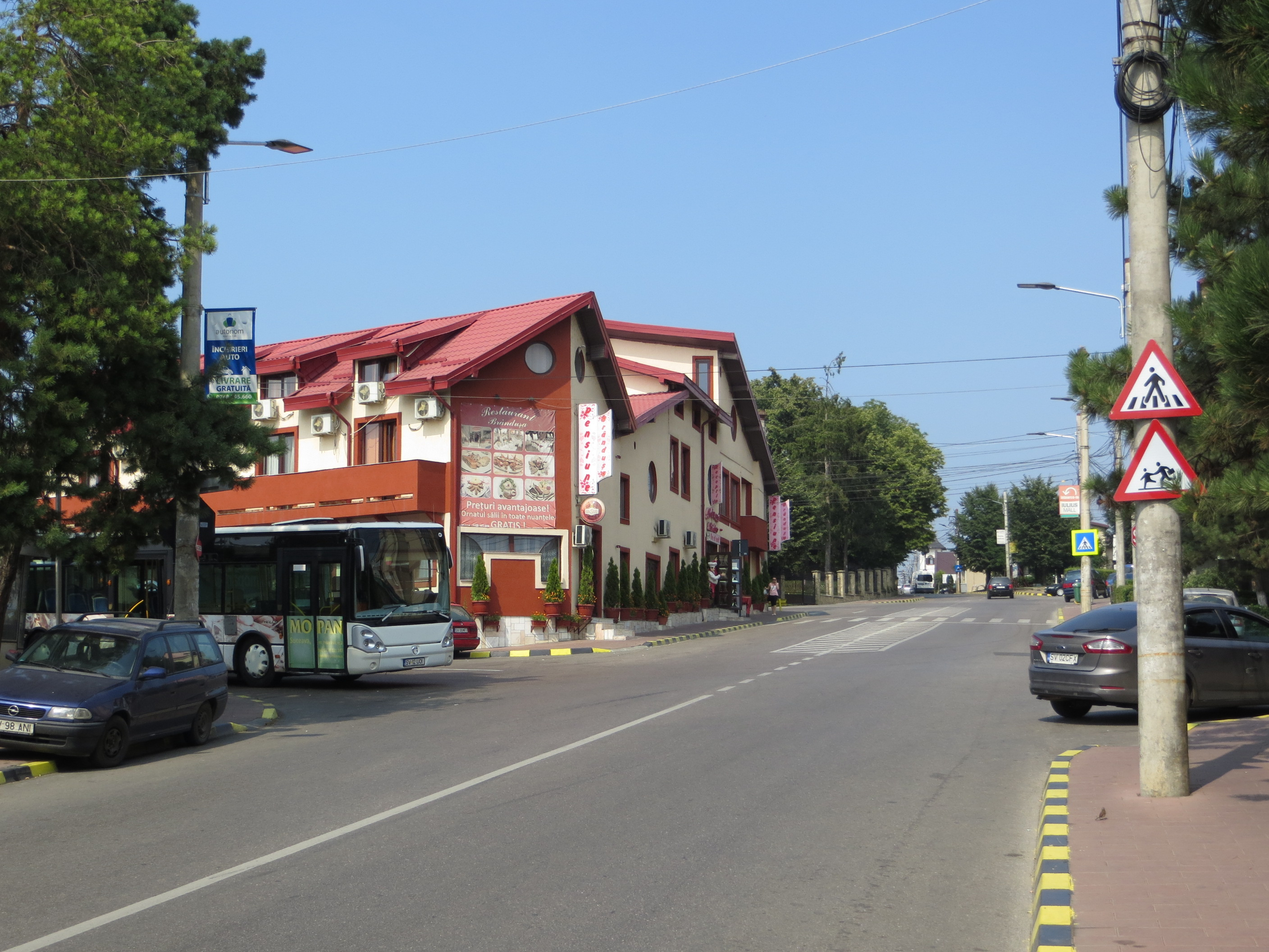 Unirii Road in Burdujeni, Suceava.